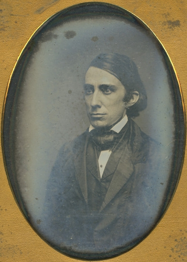 Portrait of John Moncure Daniel,a diplomat, writer, and Civil War–era editor of the Richmond Examiner, The Valentine Museum, Richmond, Va.